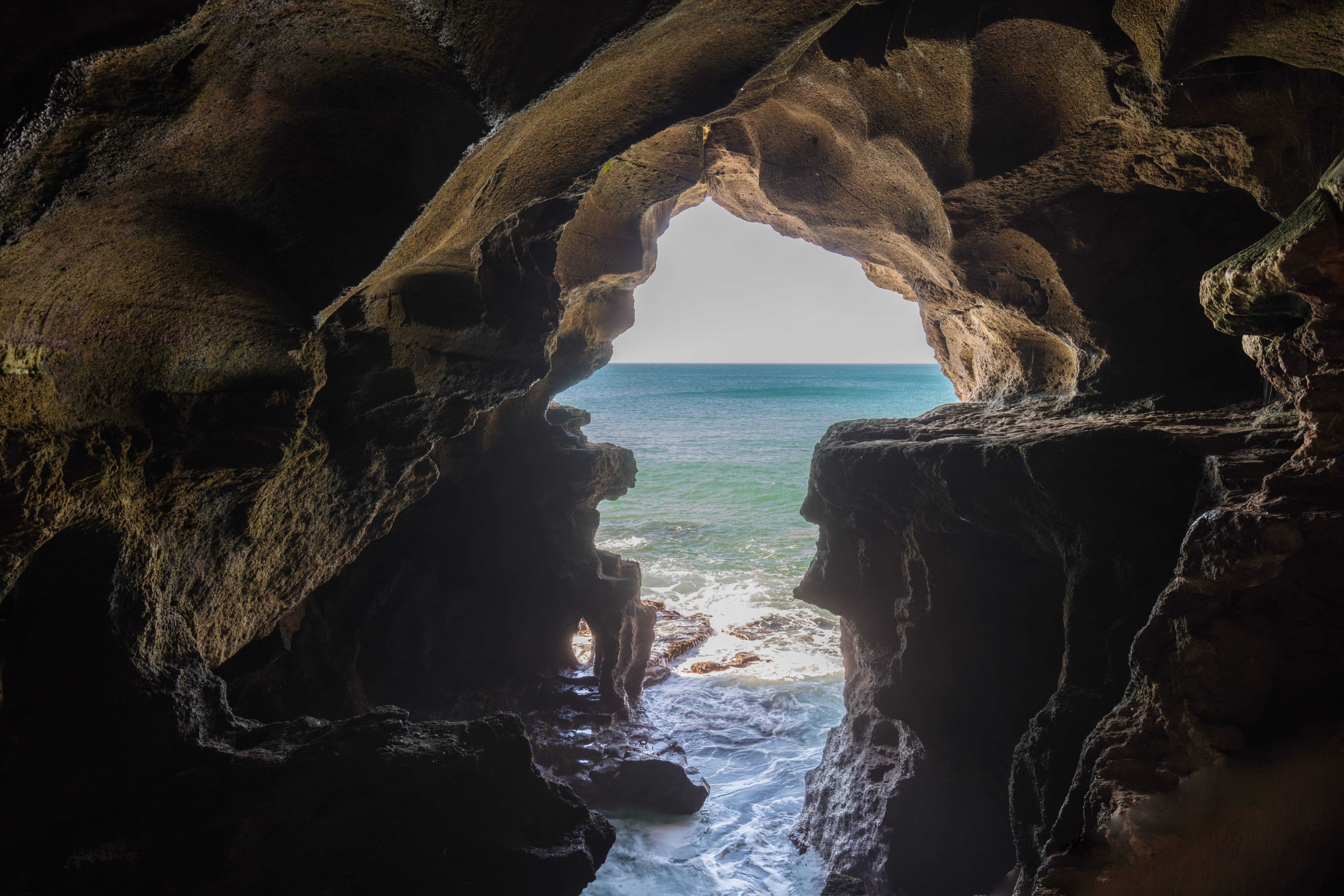 Caves of Hercules, Cape Spartel, Morocco